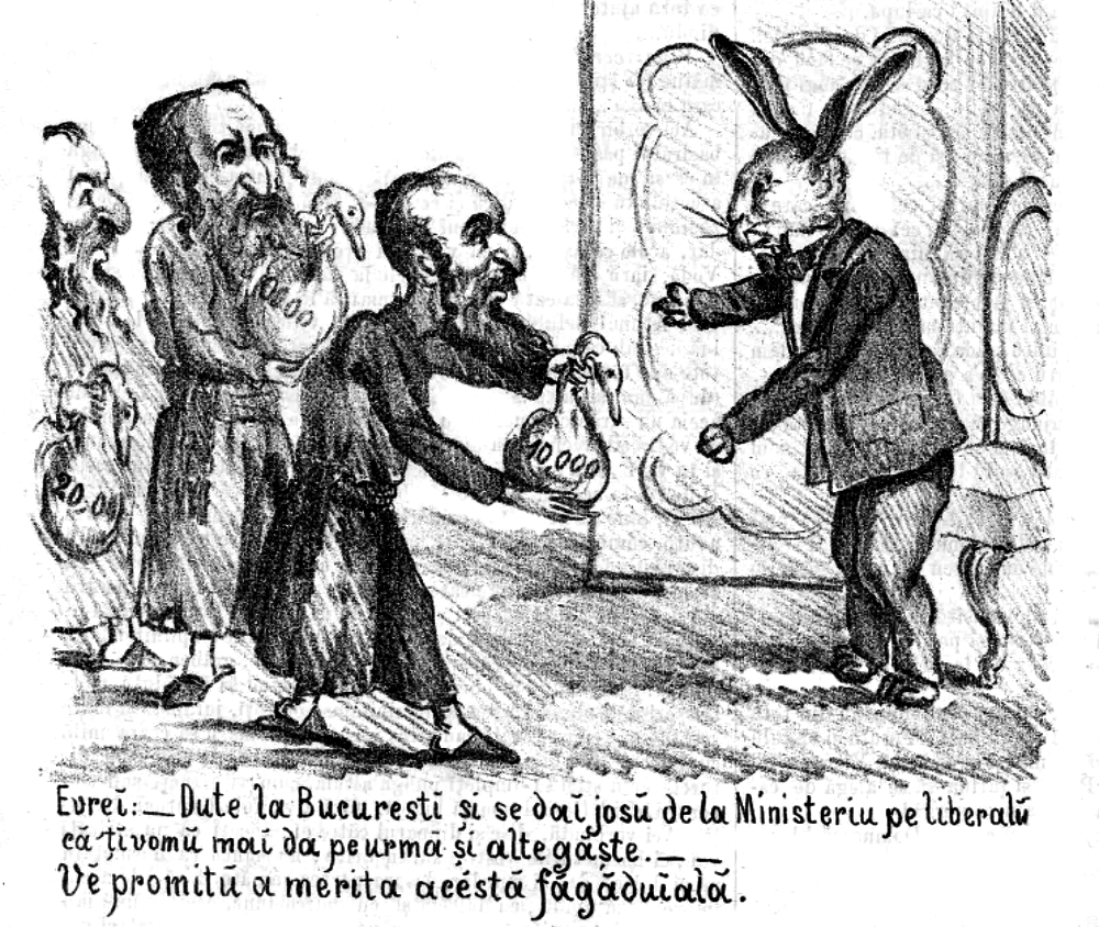 Antisemitic cartoon showing Romanian conservative leader Manolache Costache Epureanu (depicted as hare, in allusion to his name) receiving large bribes from the Jews. Their message, explained in the caption, is: Dute la Bucurestĭ și se daĭ josŭ de la Ministeriu pe liberalŭ că'țĭ vomŭ maĭ da pe urmă și alte găște, Ghimpele, 28 nov 1867 ("Go to Bucharest and bring down the liberal Ministry [of Ștefan Golescu] and there will be other geese in it for you"). The allusion is to the liberals' stance against Jewish emancipation.